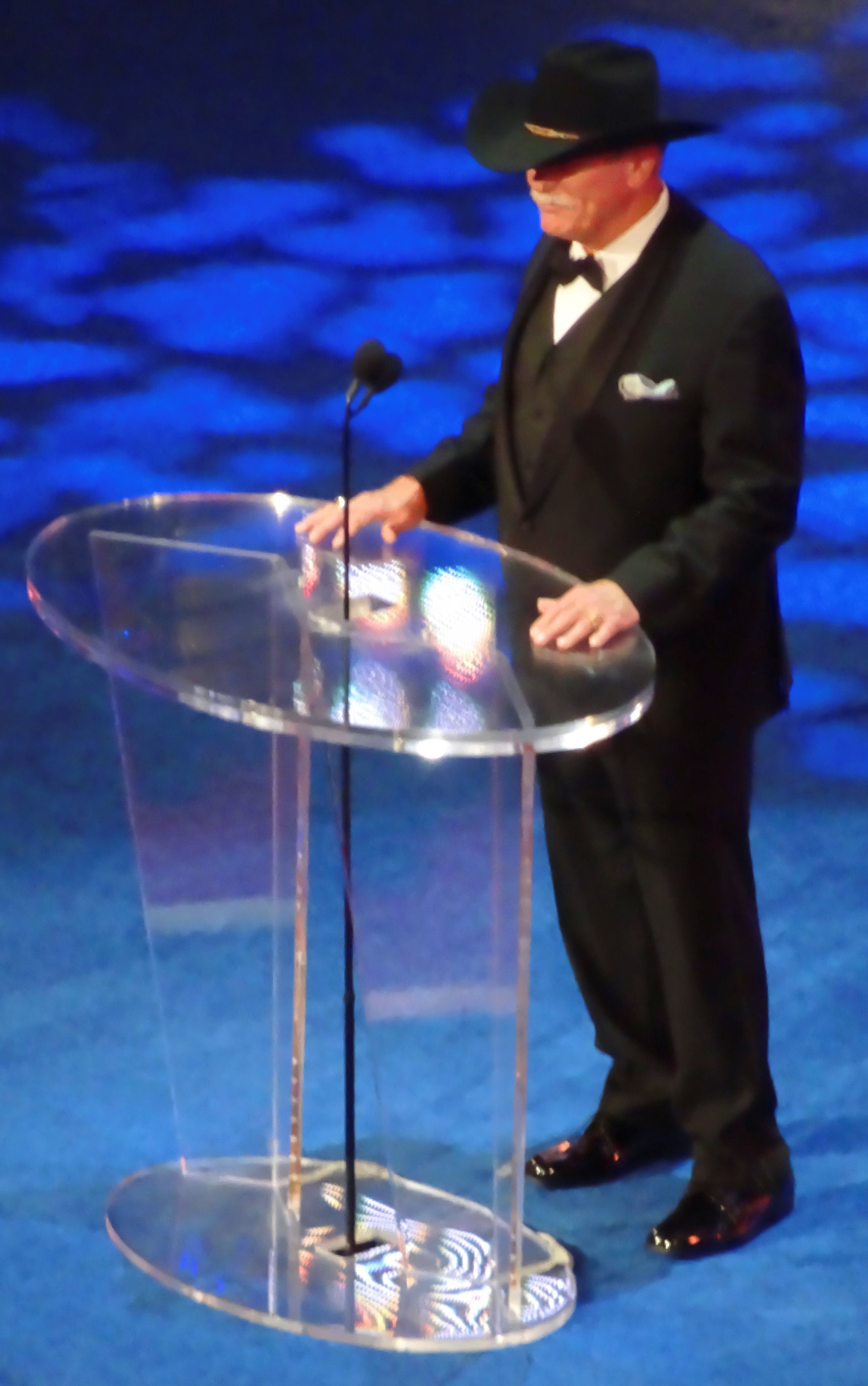 Stan Hansen at the 2016 WWE Hall of Fame ceremony